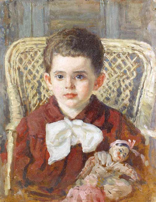 Boy with a doll, 1922